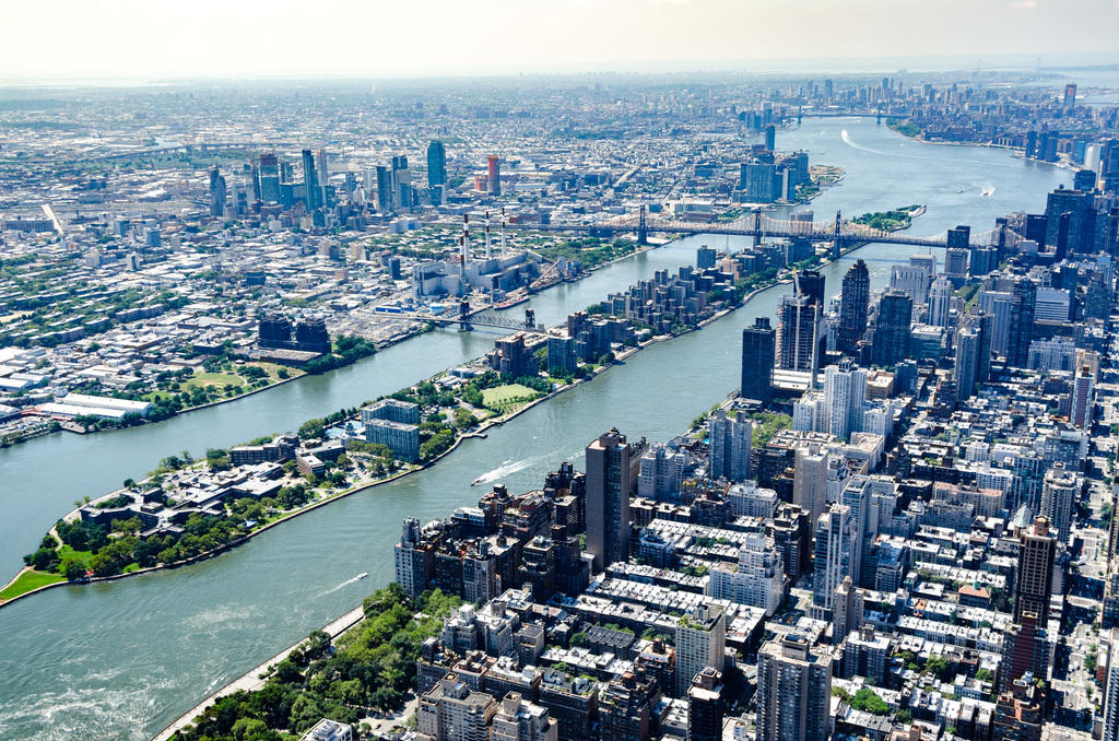 New York, N.Y., Jul. 21, 2017--The New Jersey Army National Guard (NJANG) Aviation Program has generously offered their support to conduct an aerial view/survey of the Gotham Shield Exercise covering the New York / New Jersey area. FEMA Region II and NYCEM personnel were among those who took part in the flights. The overall objective is to gain increased training knowledge and experience from an ‘outside-in’ approach and to improve our national capacity to build, sustain, and deliver core capabilities. FEMA/K.C.Wilsey